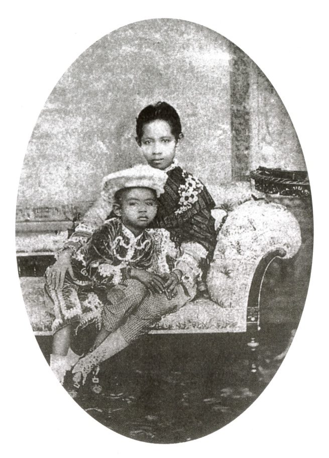 Queen Savang Vadhana and Crown Prince Vajirunhis